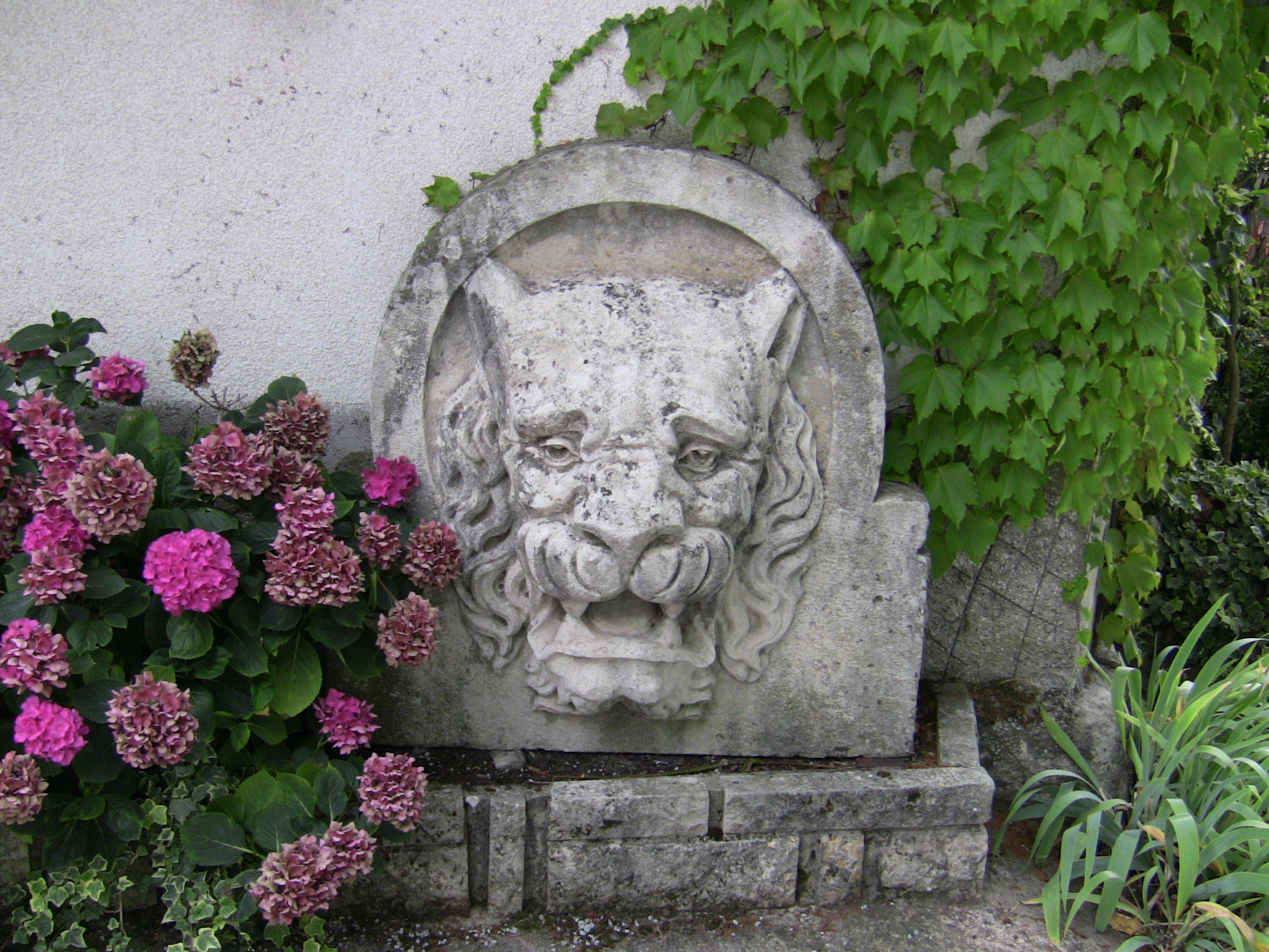 Statue of a tiger in Besançon (France)